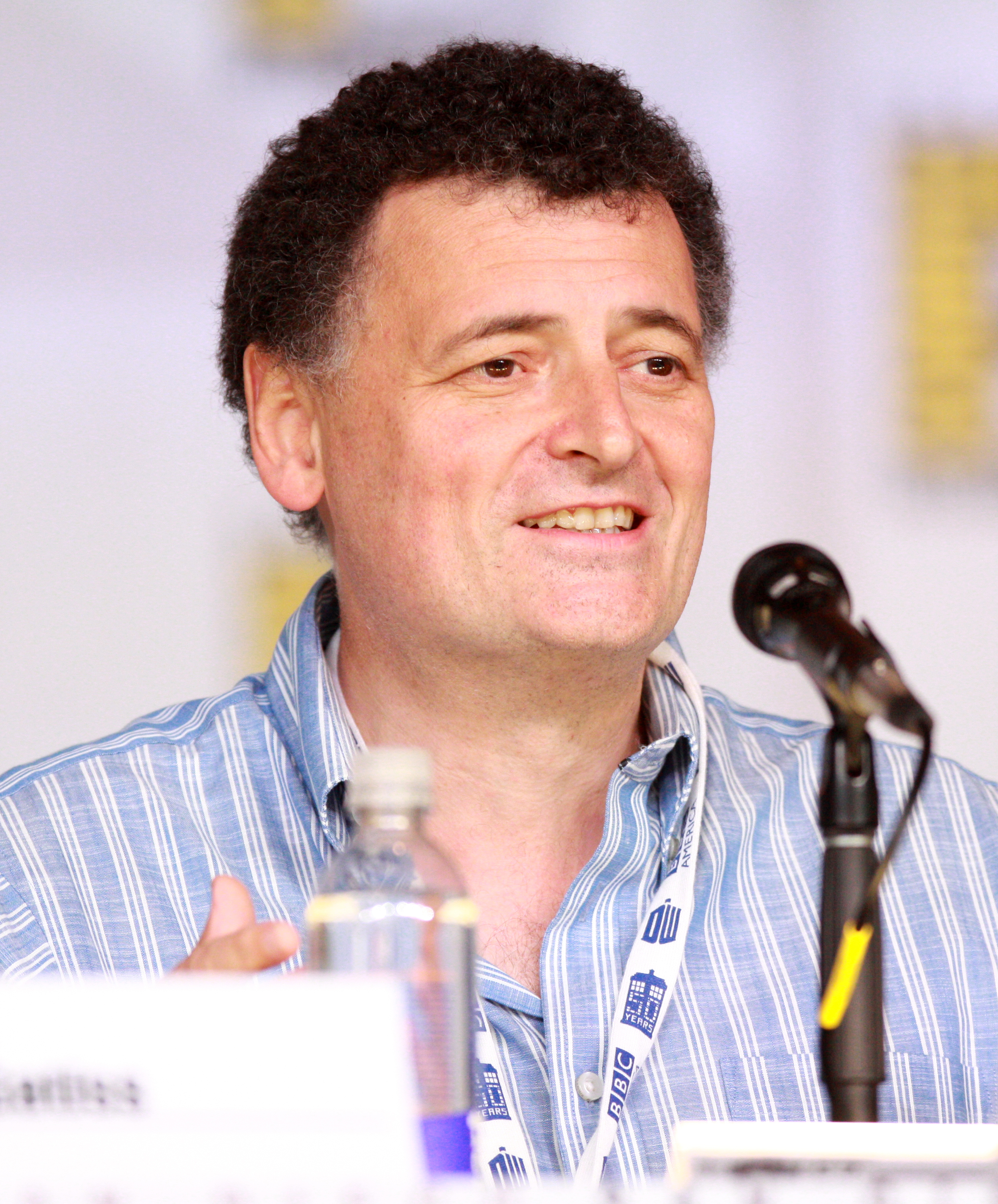 Steven Moffat at the 2013 San Diego Comic Con International in San Diego, California.